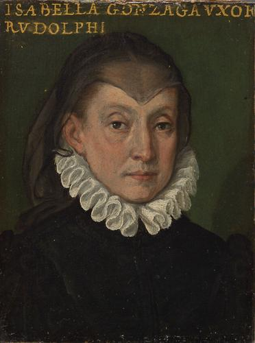 Portrait of Isabella Gonzaga di Bozzolo, wife of Rodolfo Gonzaga, conte di Poviglio